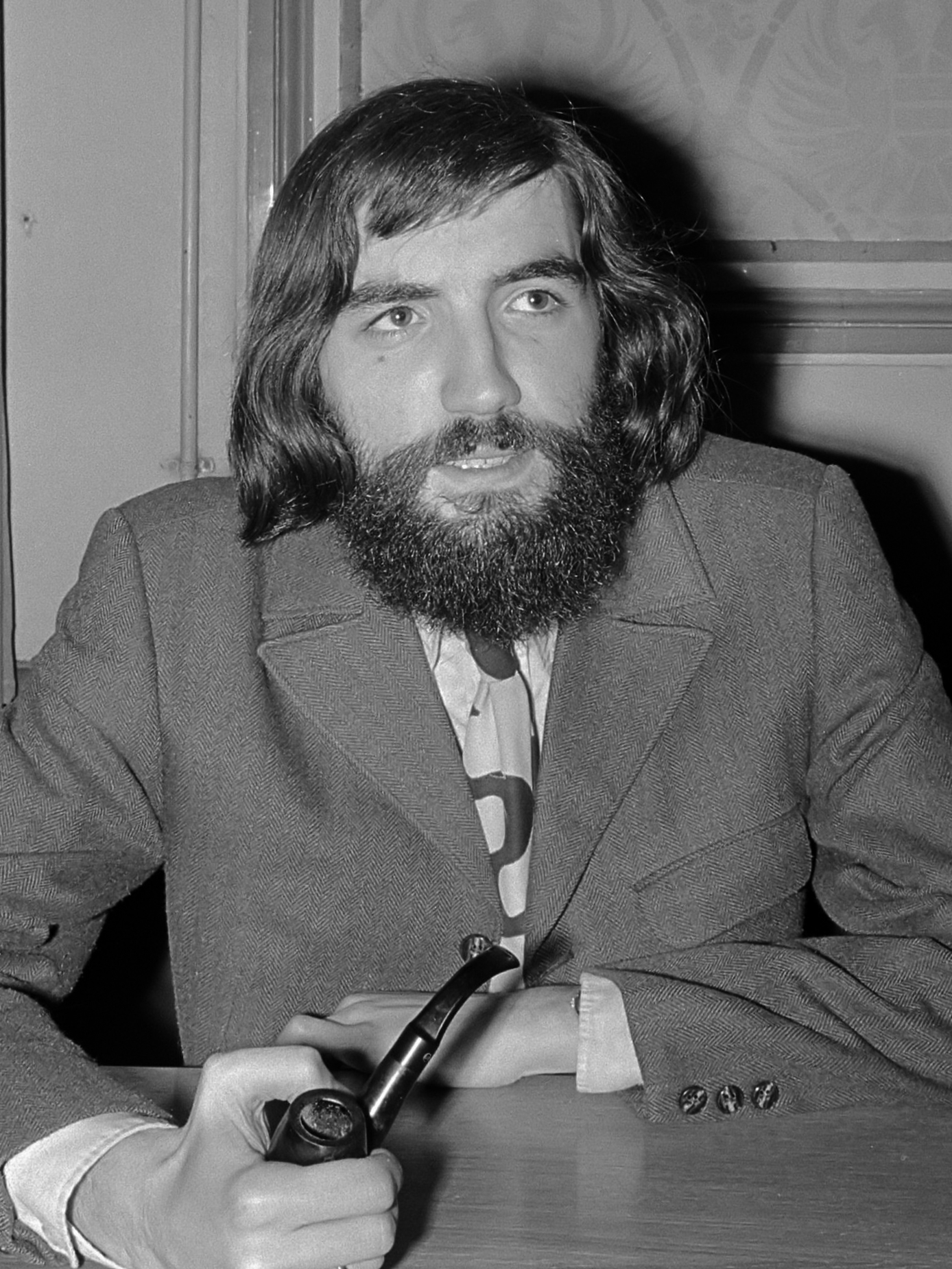 Burgemeester Berger van Groningen neemt afscheid vanwege zijn overstap van PvdA naar DS'70. Wethouder Max van den Berg (PvdA) 6 april 1971